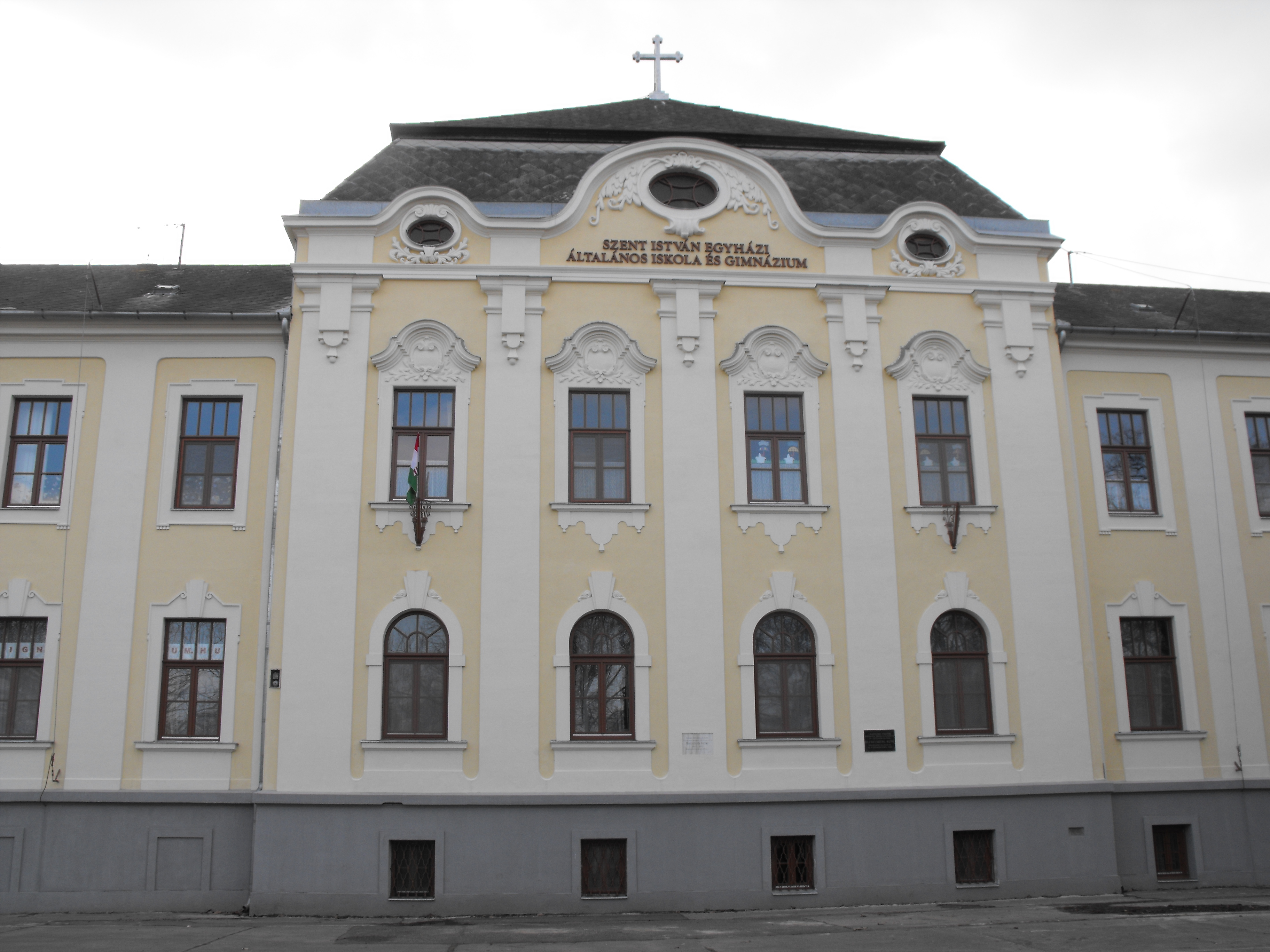 The Catholic elementary and secondary school in Makó, Hungary.